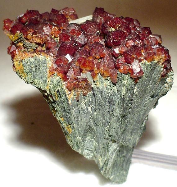 Andradite, Hedenbergite Locality: Mega Horio, Serifos Island (Seriphos), Cyclade Islands (Cyclades; Kikladhes; Nomos Kikladhon), Kykládes Prefecture, Aegean Islands (Aiyaíon) Department, Greece (Locality at ) Beautiful and lustrous dark cherry-red andradite garnet crystals to 5 mm crown a pillar of lustrous hedenbergite blades from Serifos, Greece. 6.3 x 5.2 x 3.7 cm